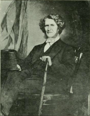 Alexander Forrester